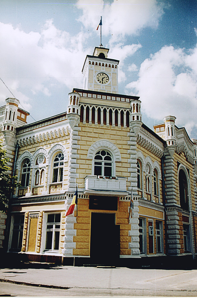 primaria